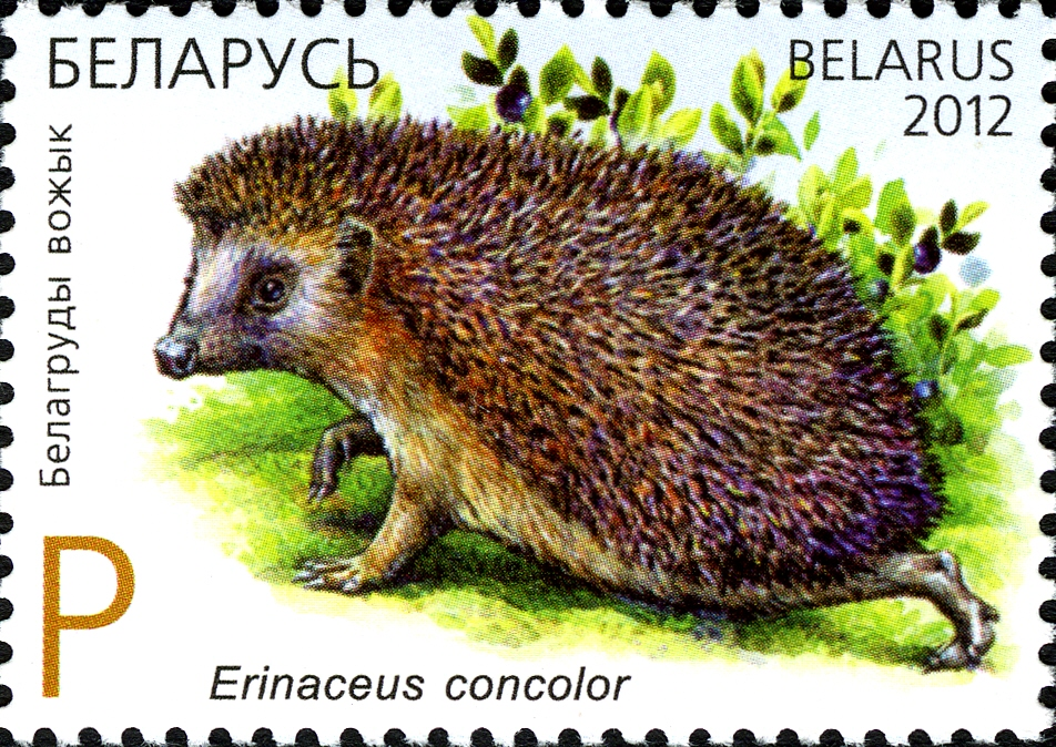 Stamp of Belarus